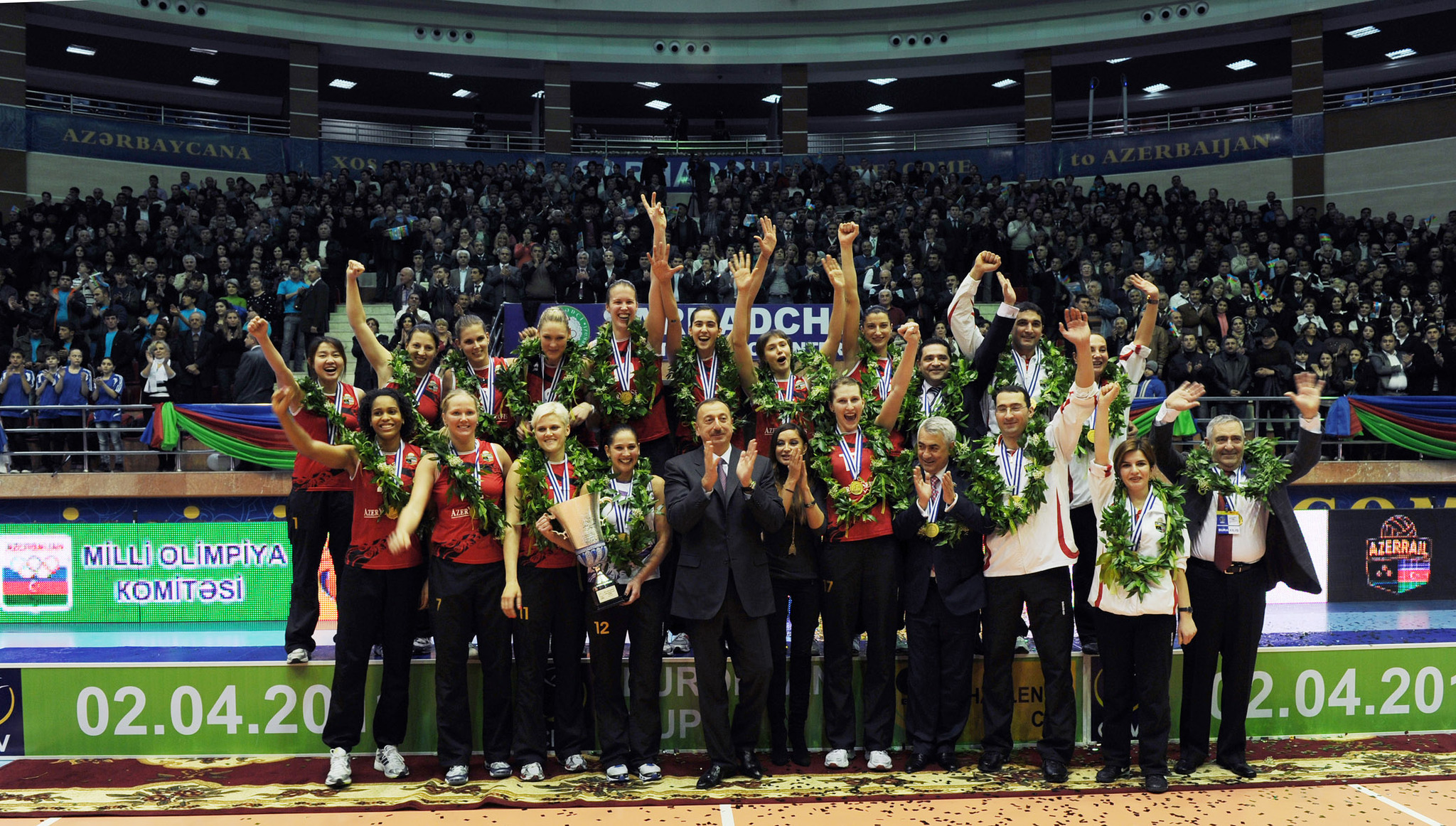 CEV Women's Challenge Cup 2011 final match